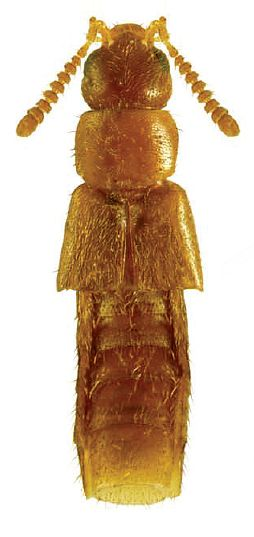 Holotype of Alisalia antennalis.